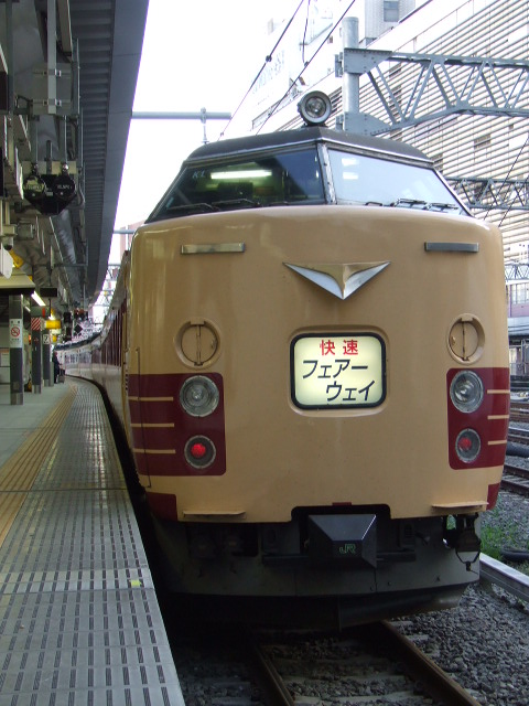 Rapid〝Fairway〟of Model 485,East Japan Railway,Japan